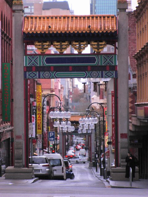 China Town